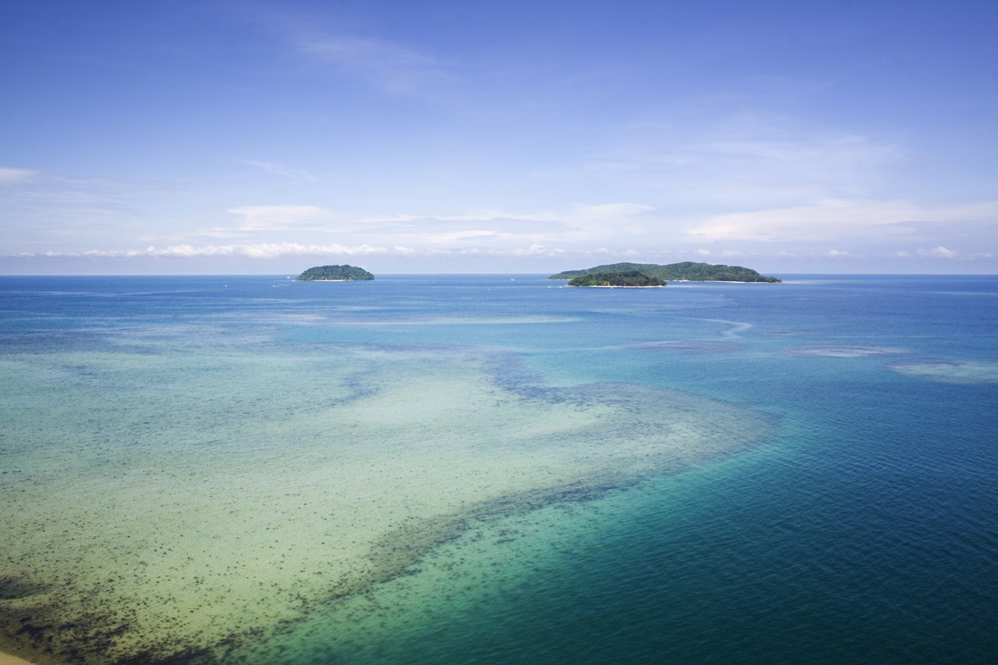 Sea View from Kota Kinabalu City. Three of the five islands in the marine park Tunku Abdul Rahman off Kota Kinabalu in Sabah, Malaysia can be seen in this photo. By itself to the left is Pulau Sulug, and on the right are Pulau Mamutik and Pulau Manukan (the larger one).